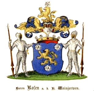 Coat of arms of von Rosen family (white)